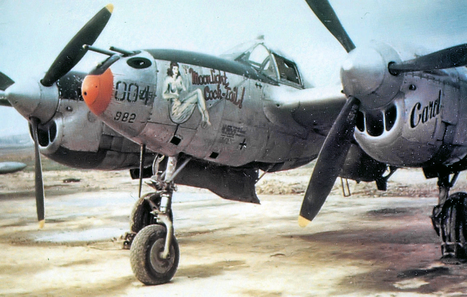 393rd Fighter Squadron Lockheed P-38J-10-LO Lightning 42-68004